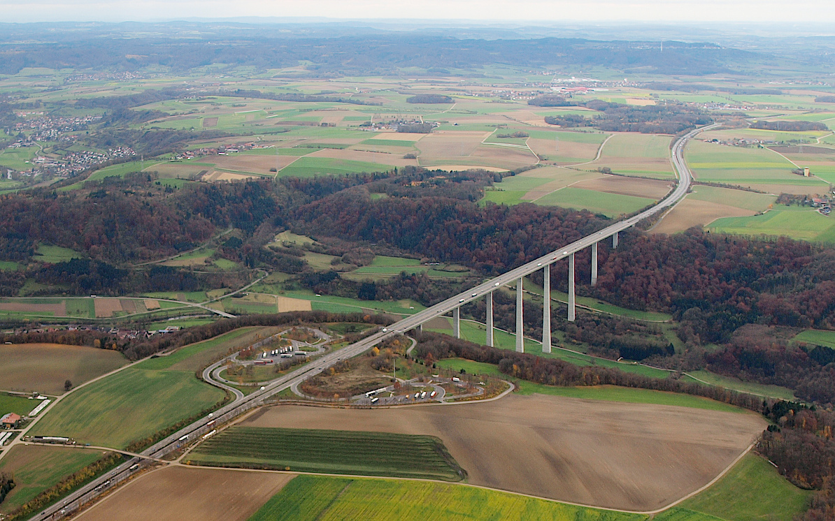 Aerial view from the north-east towards the Kochertal bridge, Germany's tallest motorway bridge